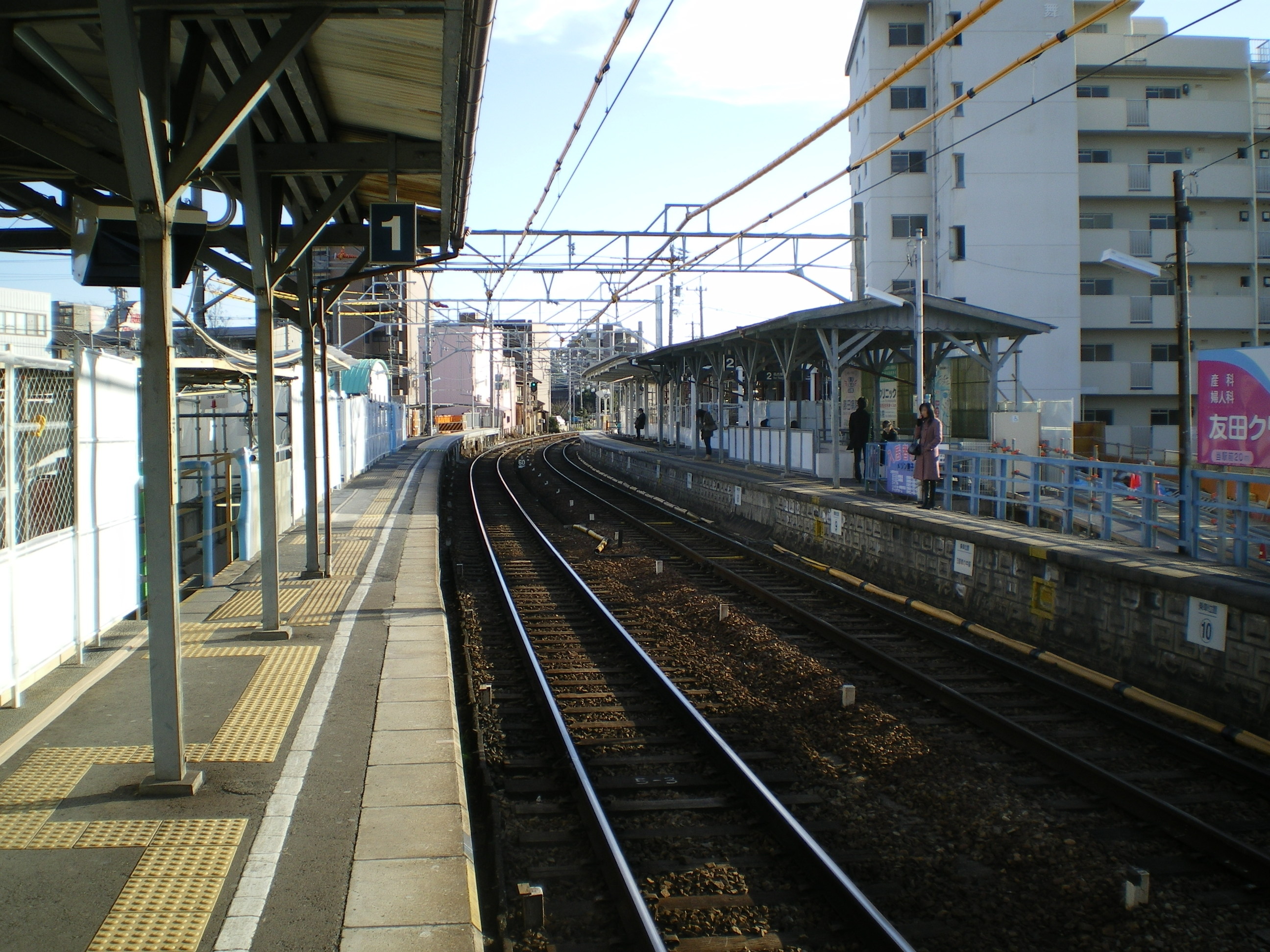 Nagoya Railroad Tokoname Line Shin Maiko Station Platform